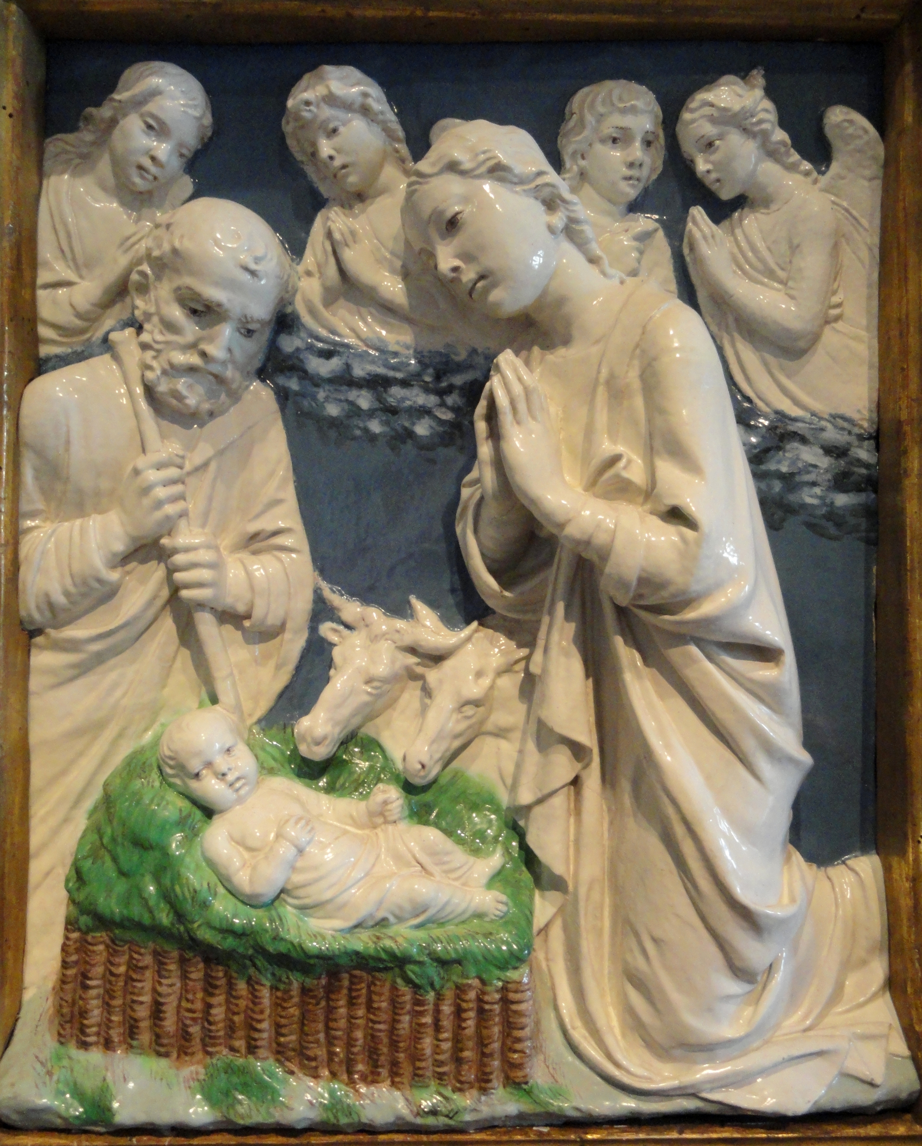 Nativity by Luca della Robbia - National Gallery of Art, Washington, DC, USA. This artwork is old enough so that it is in the public domain.